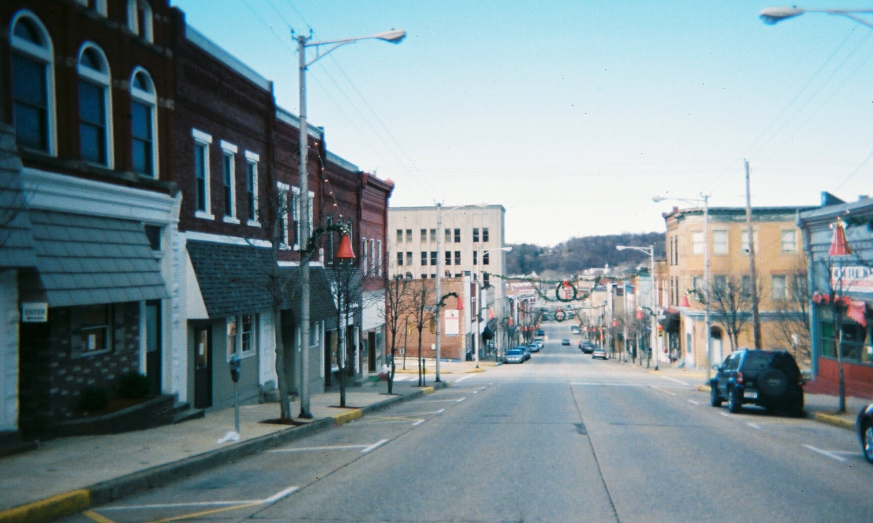 Downtown Jeannette, Pennsylvania, looking downhill (toward the northwest) on Clay Avenue, from a position between Second Street and Third Street